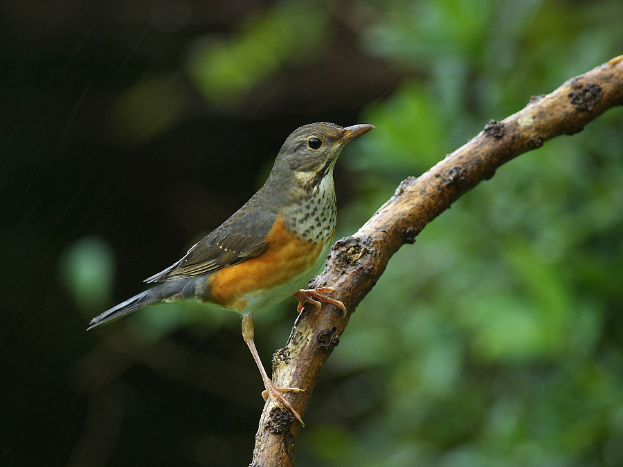 Kiswahili: Grey-backed thrush.